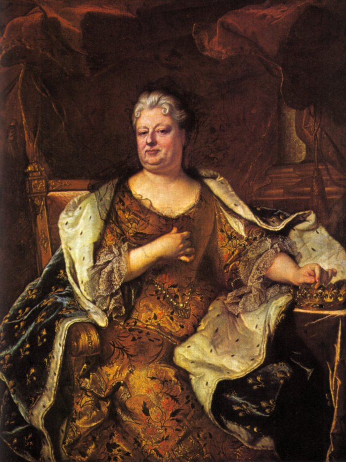 The Duchess wears the black vap and veil of a widow (her husband died in 1701).